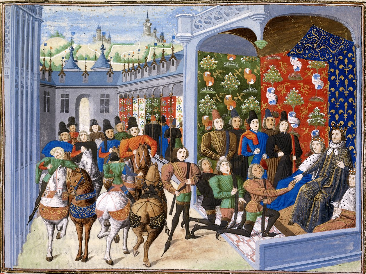 Isabeau of Bavaria and Charles VI of France at the Treaty of Troyes. Illuminated miniature from Jean Froissart's Chroniques, BL Harley 4380.